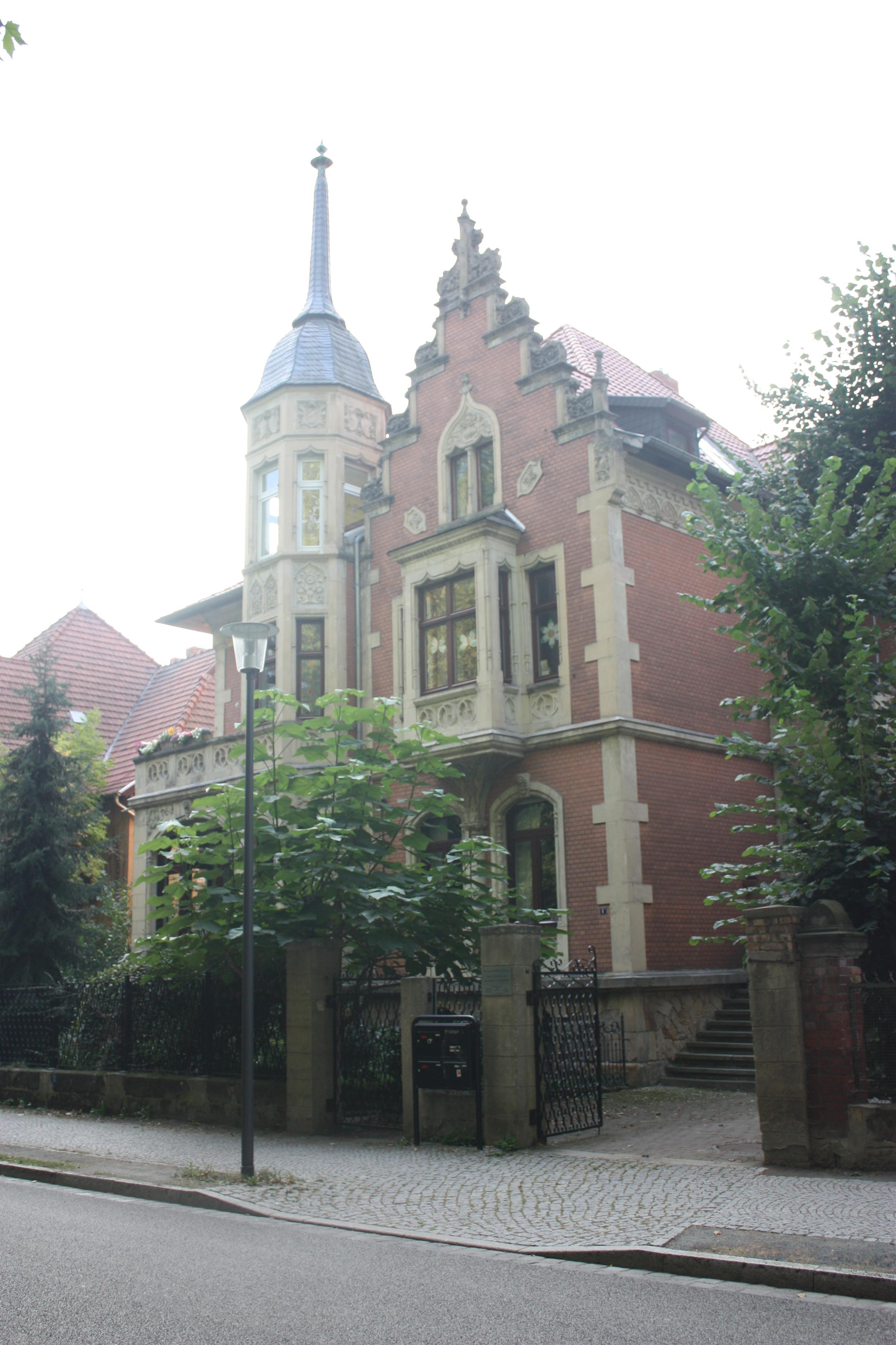 This is a photograph of an architectural monument.It is on the list of cultural monuments of Quedlinburg Brühlstraße 04 (Quedlinburg)